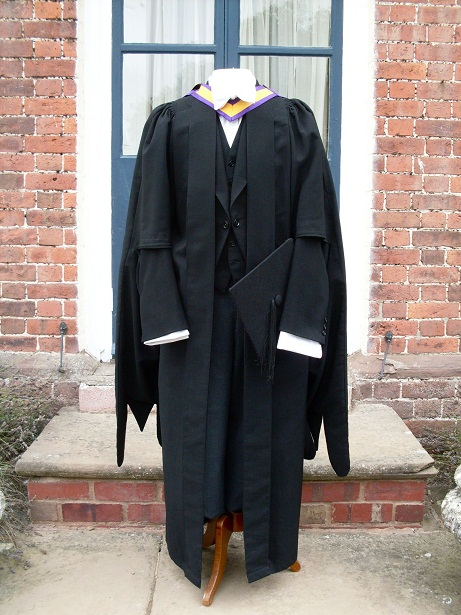 Front detail of University of Manchester gown featuring unique sleeve shape.